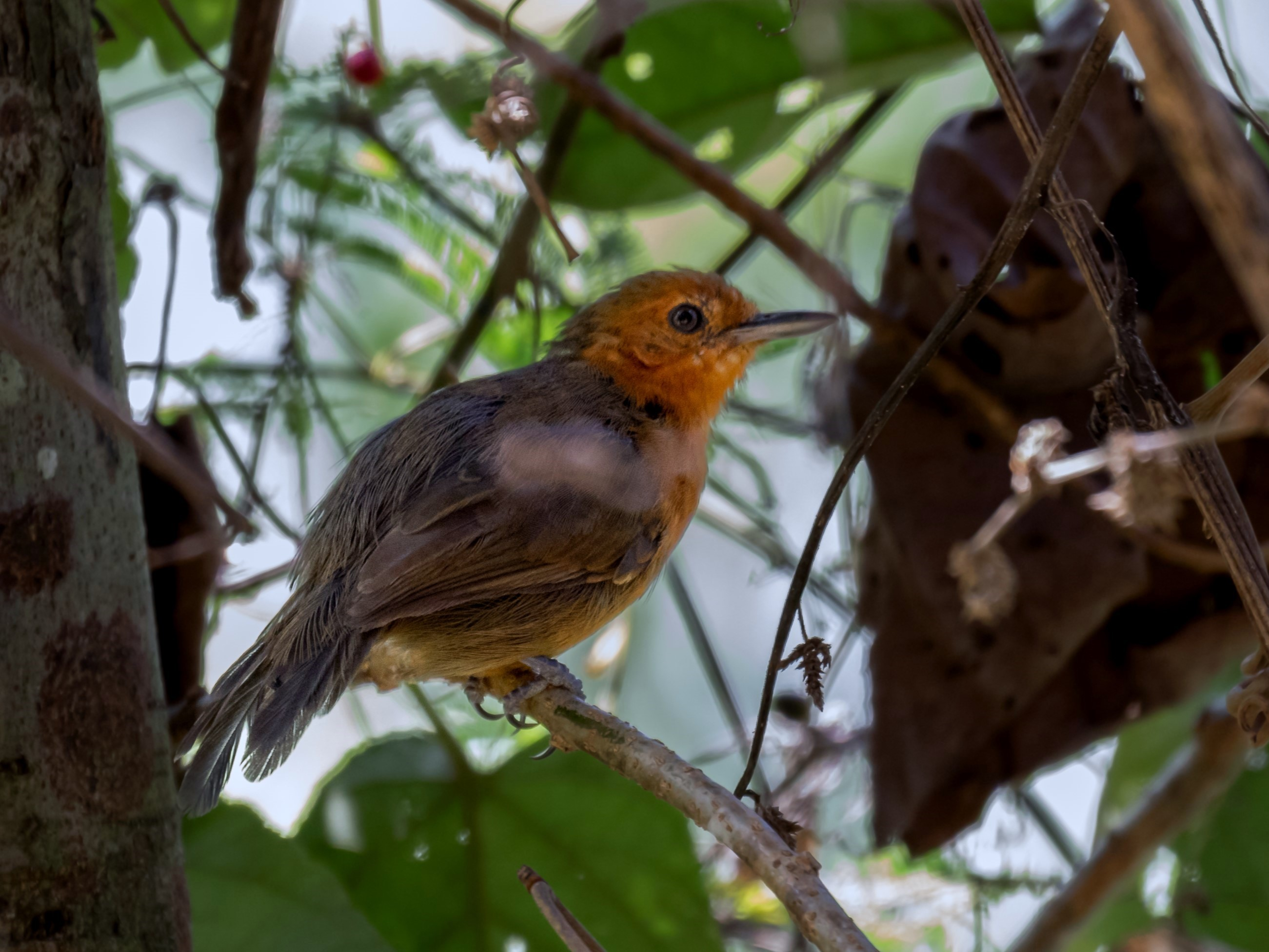 Riparian antbird (female) at Rio Branco, Acre, Brazil